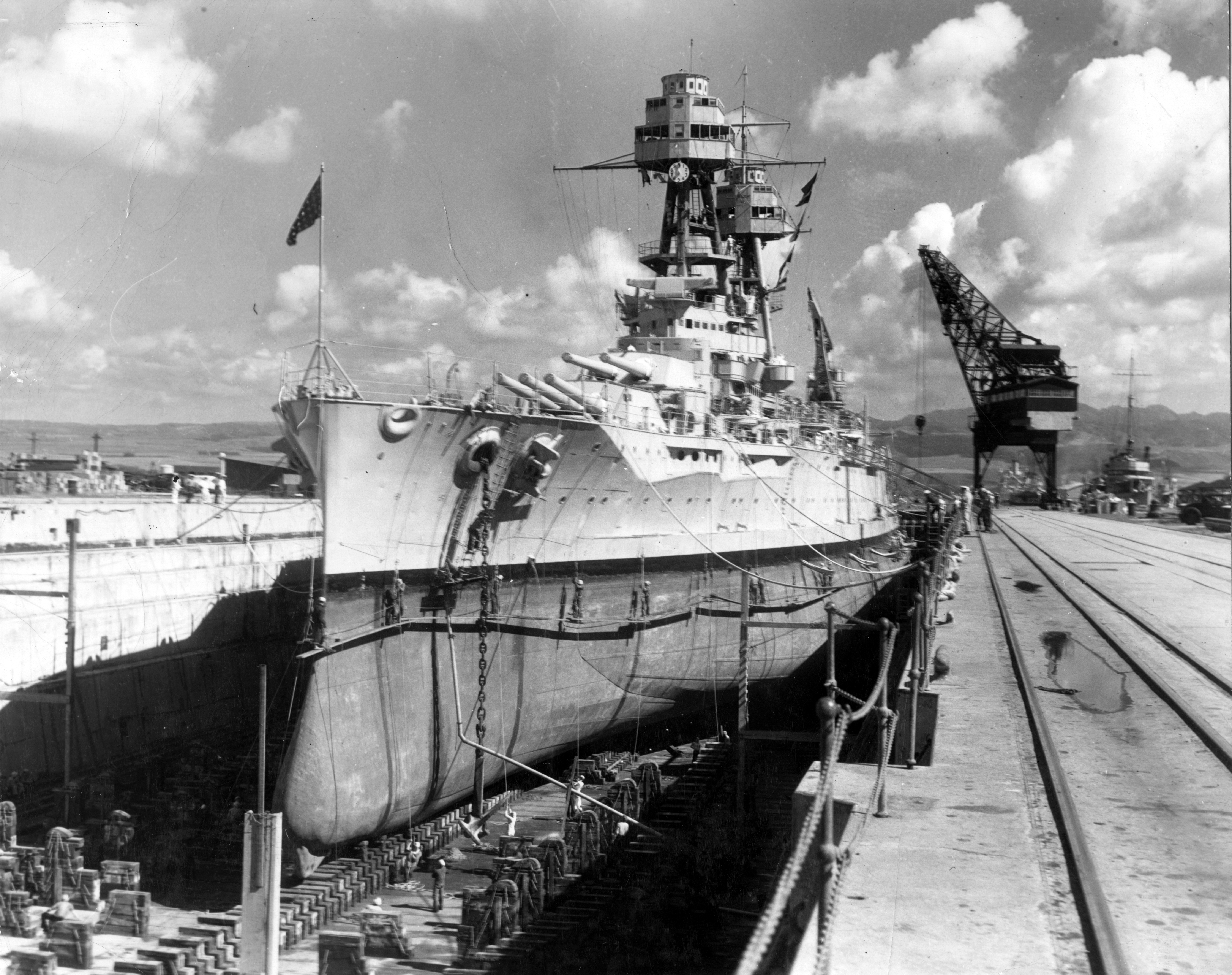 The USS Nevada (BB-36) "In Dry Dock Number 1 at the Pearl Harbor Navy Yard, Hawaii, circa 1935. Note men painting her boot topping from stages rigged over the side, and outline of her anti-torpedo blister where it merges with her forward hull. U.S. Naval History and Heritage Command"